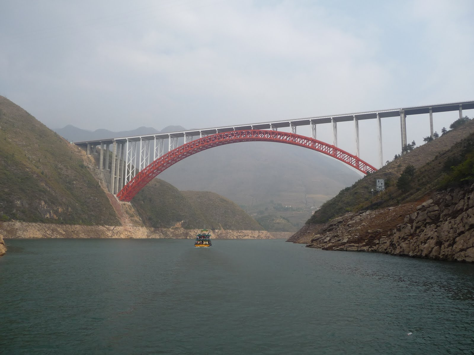 New bridge being built.